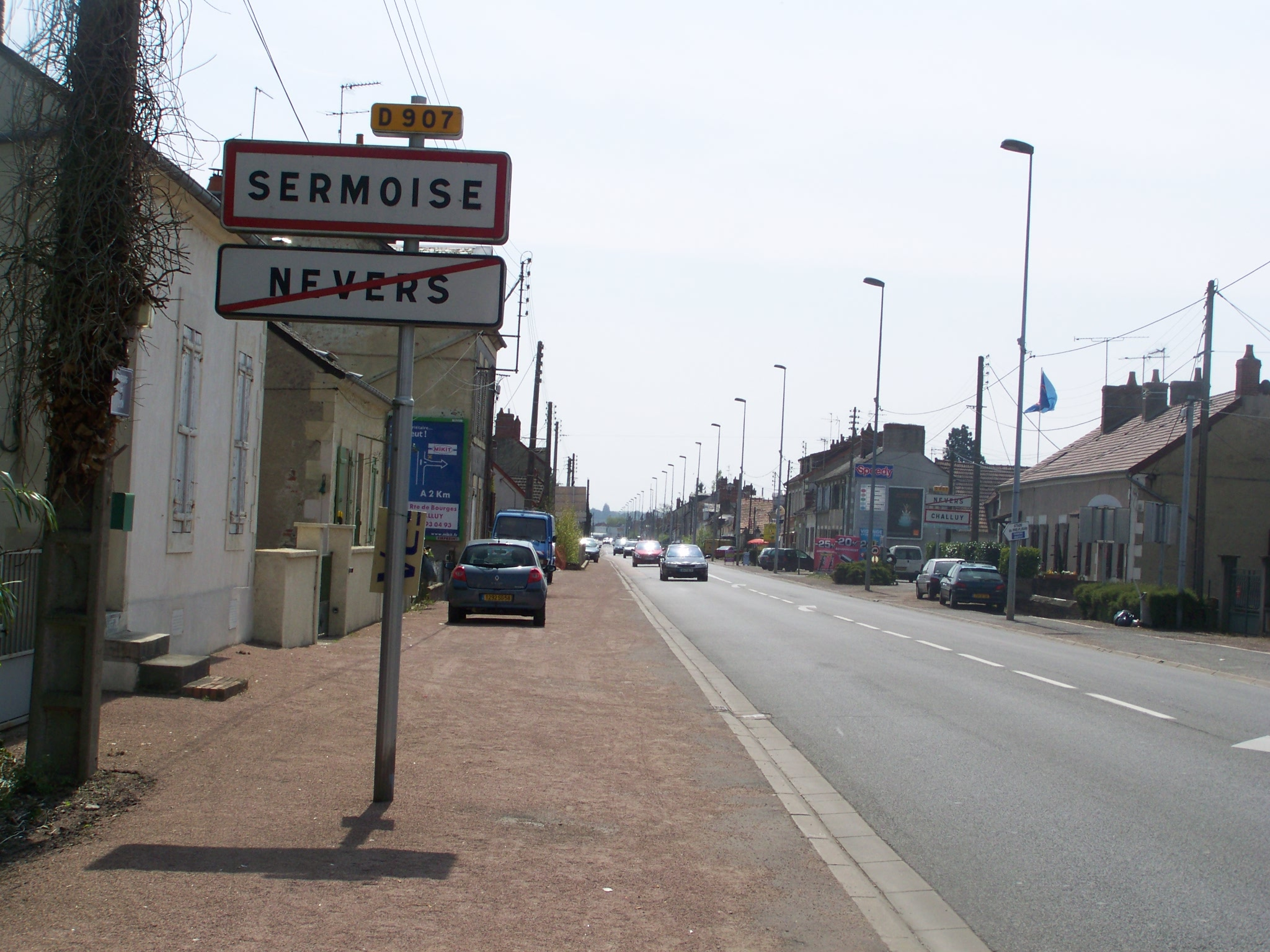 Sign welcoming to the French commune of Sermoise-sur-Loire near Nevers in Nièvre.